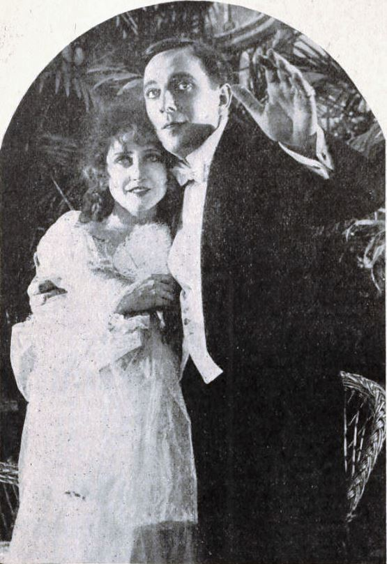 Still from the American drama film The Seeds of Redemption (1917) with Claire Mersereau and Stanley Walpole, on page 32 of the June 30, 1917 Universal Weekly.